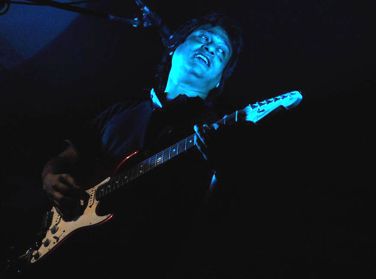 Souls at reunion concert in SUST campus